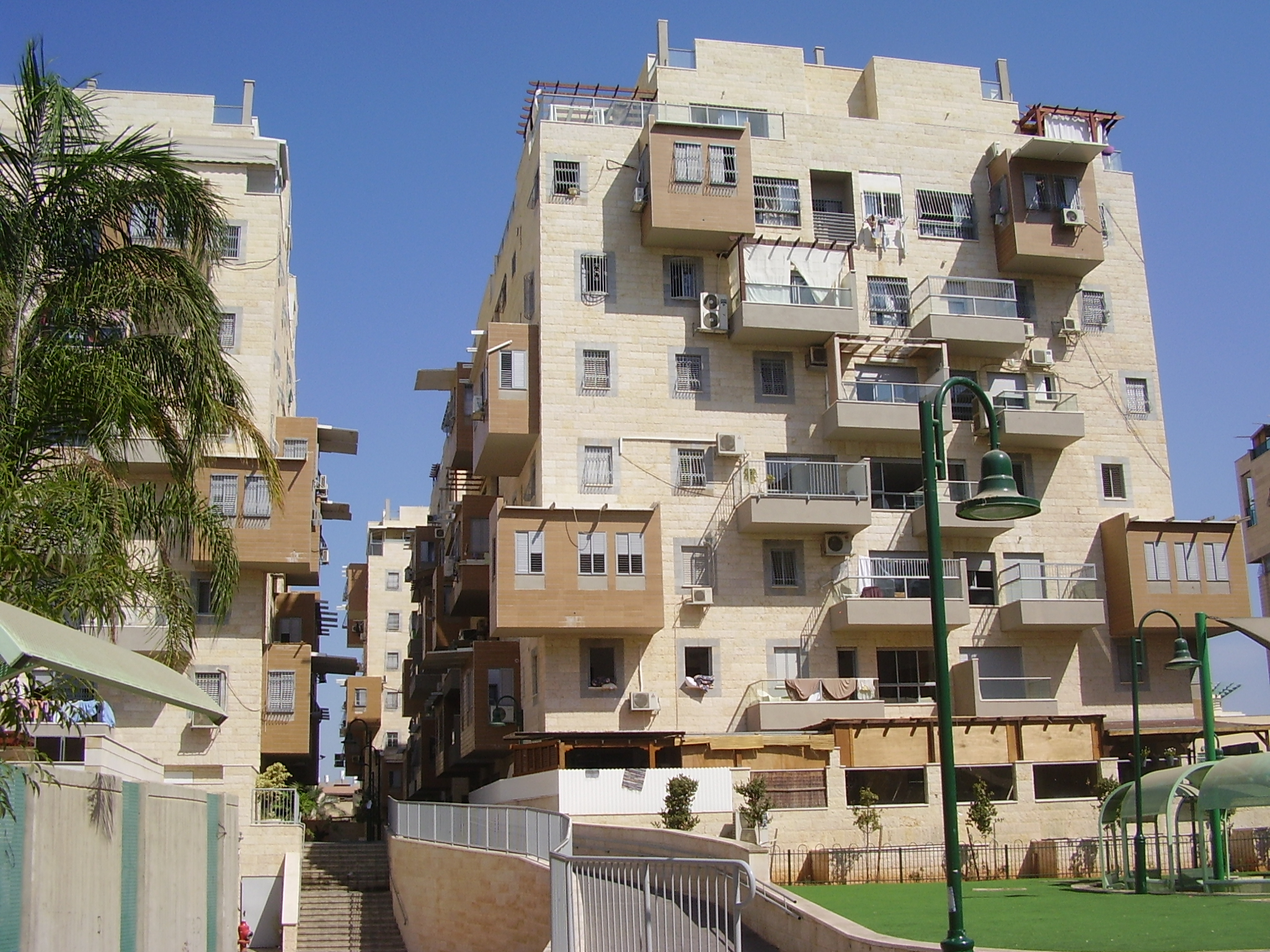 Apartment house with sukkah porches in Bnei Brak. Notes: The sukkah porches jut out from the building to ensure they are open to the sky when schach is placed on them, giving them kosher status as sukkahs. Location: Bnei Brak